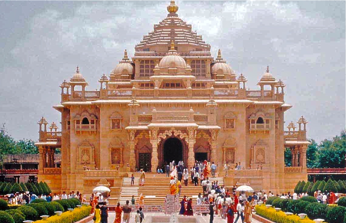 This is Image of Akshardham (Gandhinagar)